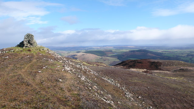 Hilltop cairn on Bishop Forest Hill The weather finally improved and warm sunshine made this a fine place to linger.